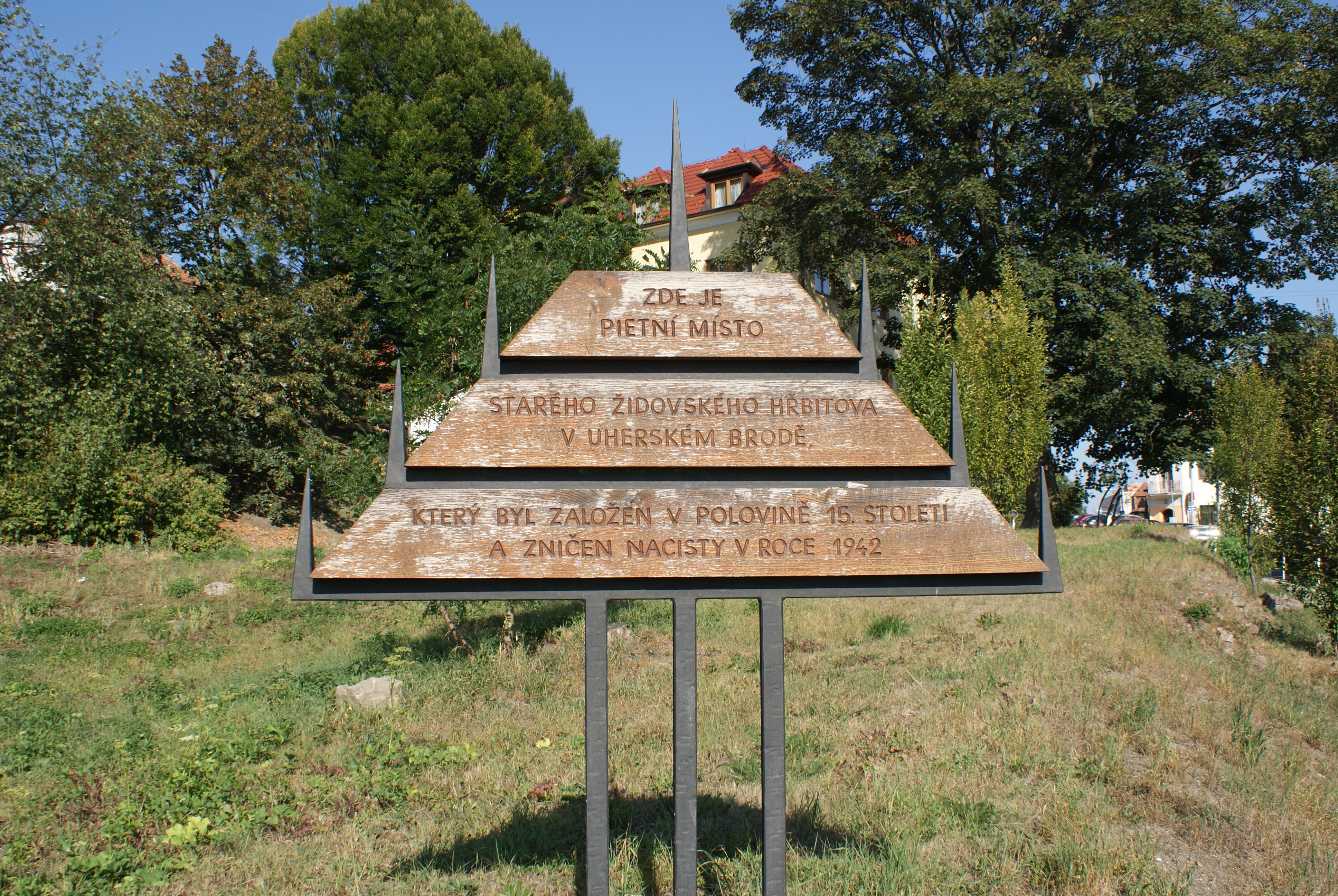 Old (former) Jewish cemetery in Uherský Brod, Uherské Hradiště district, Czech Republic.